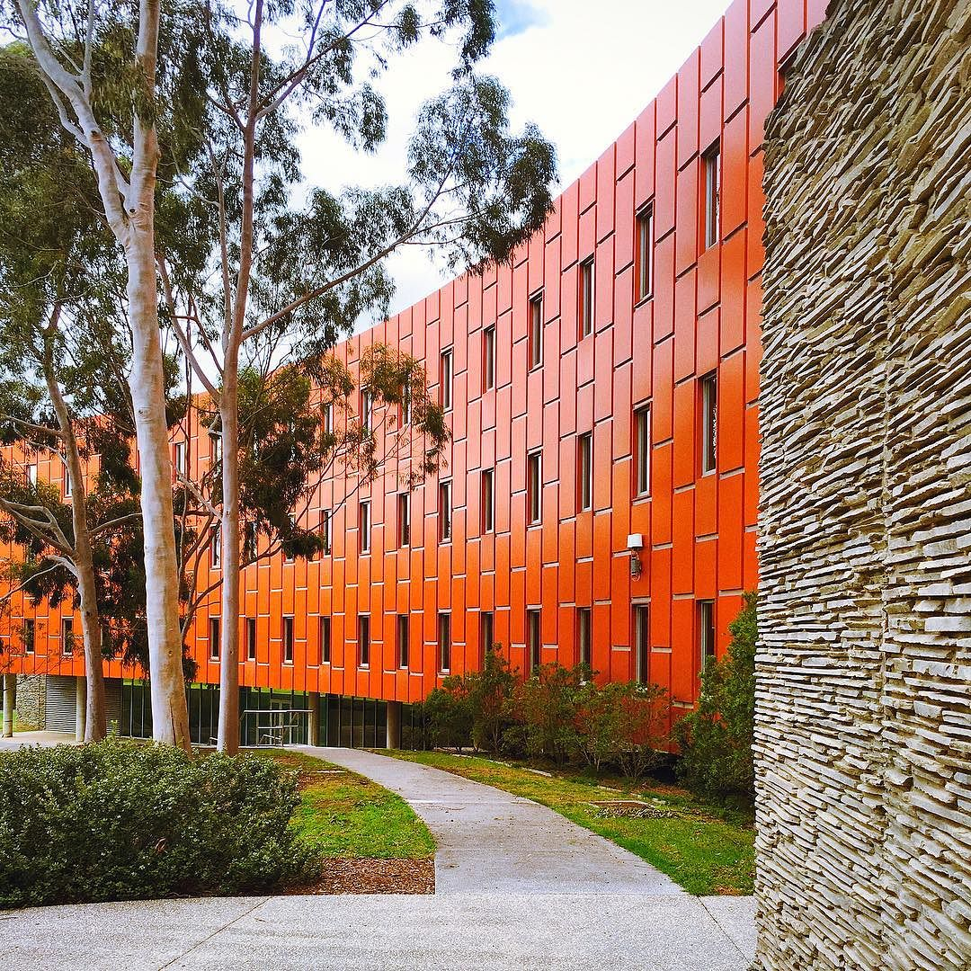 Building 220 at the Bundoora campus of RMIT University. Designed by Wood Marsh and constructed in 1998.